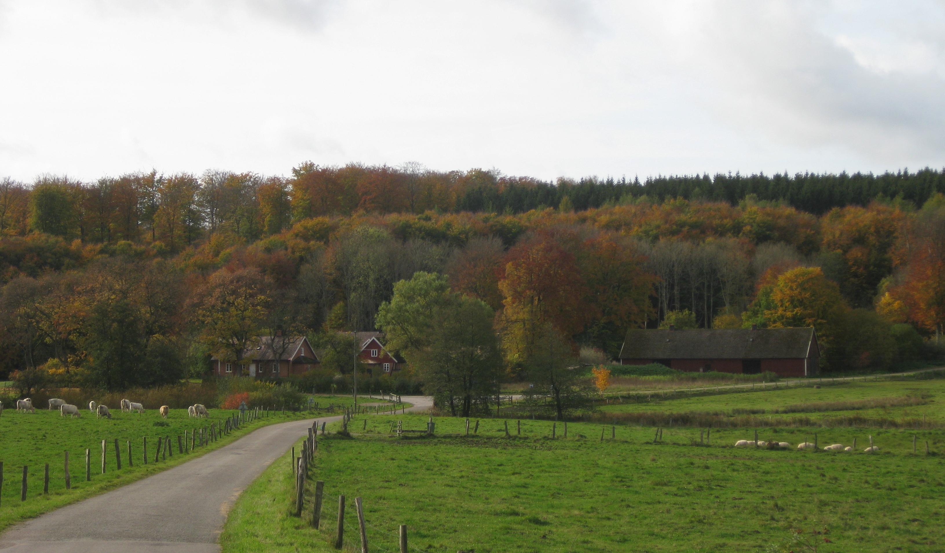 Fyledalen i Skåne, Sweden.